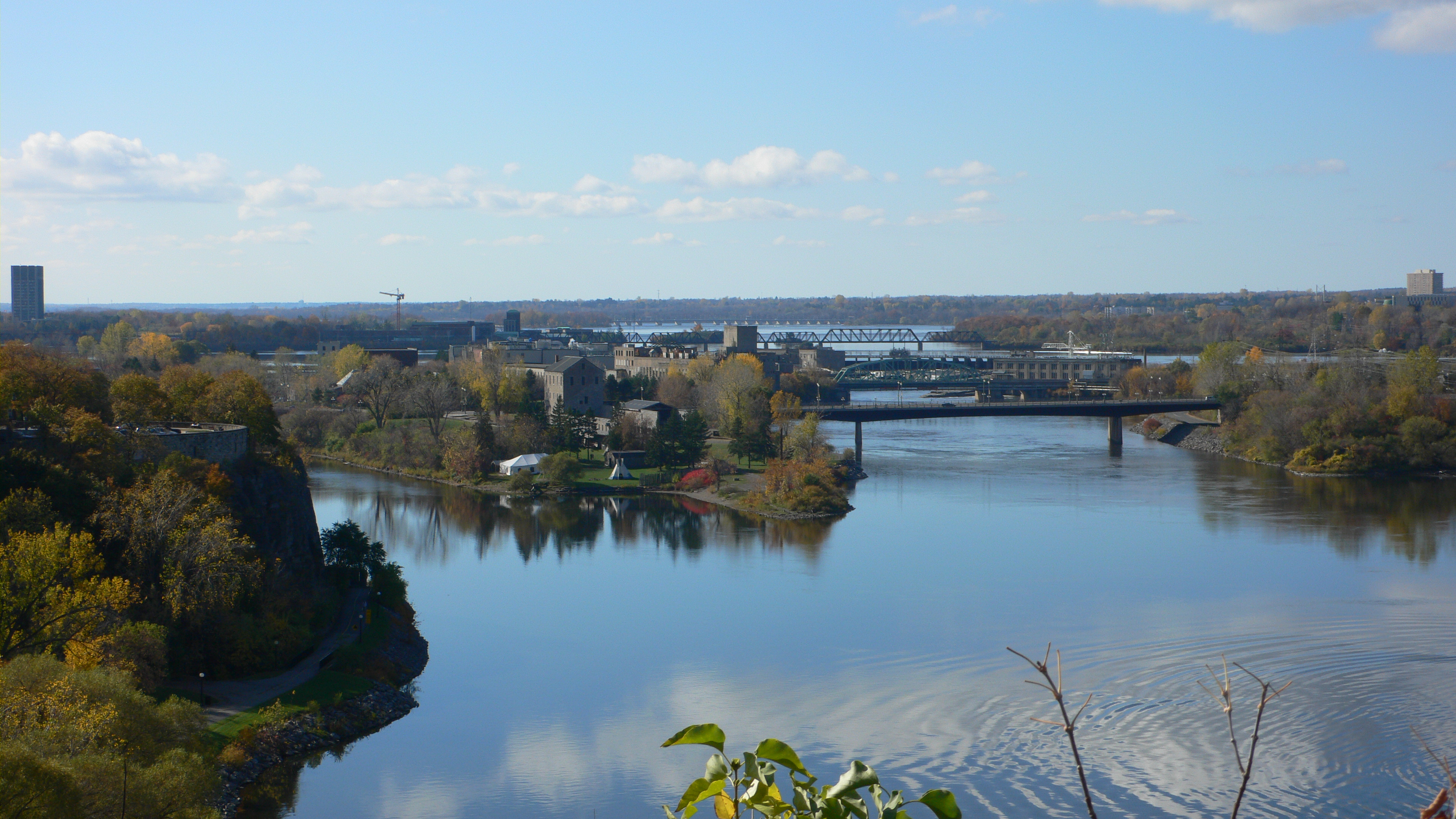 Ottawa river (Ottawa City, Ontario, Canada).